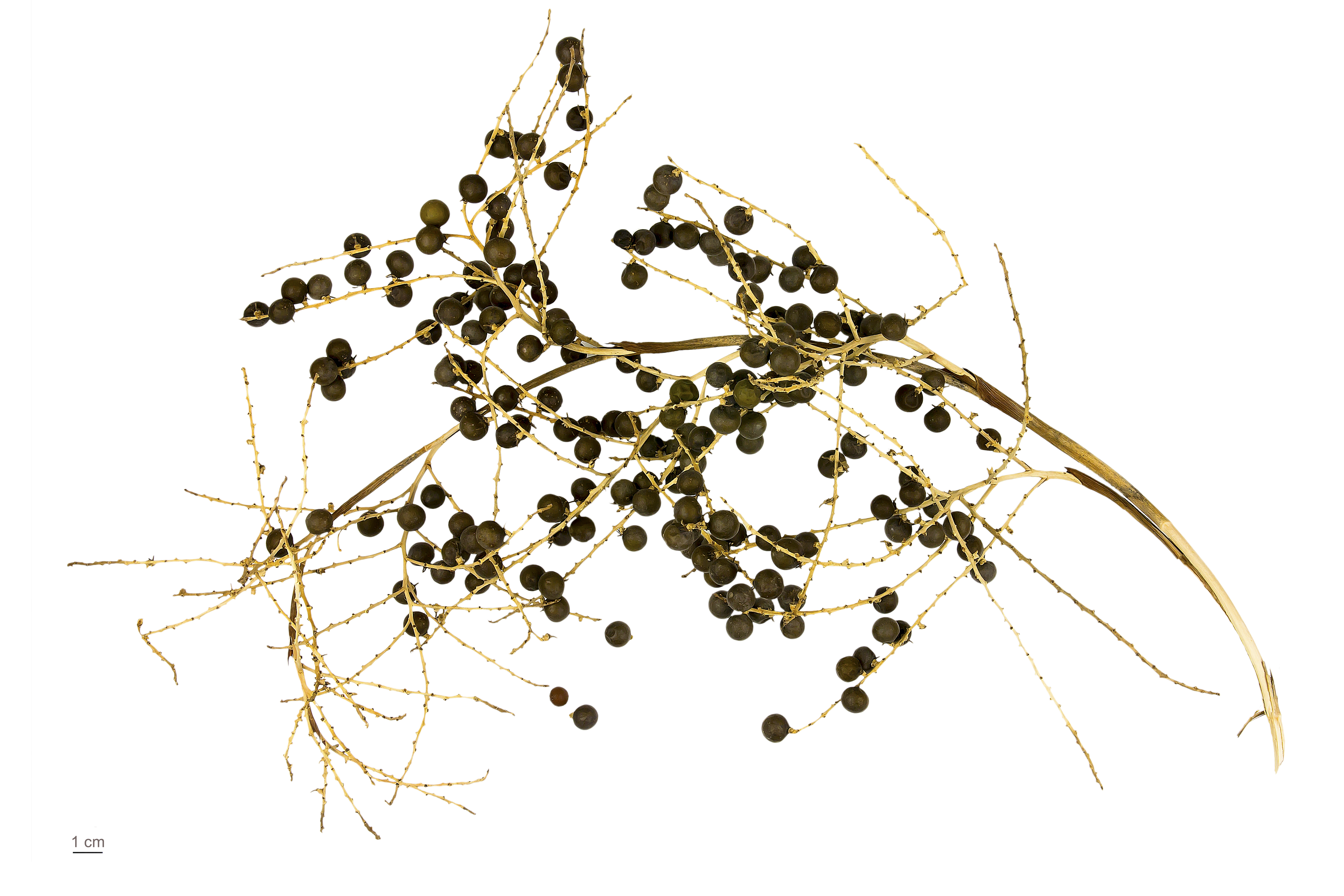 Sabal minor, dwarf palmetto, seeds